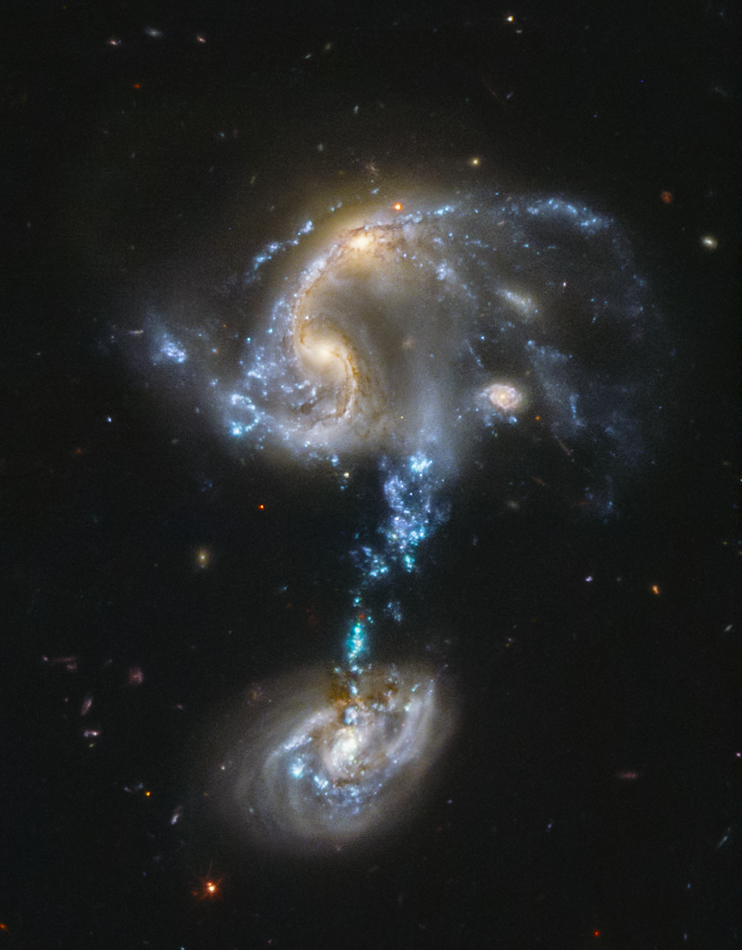 These galaxies were imaged with Hubble's old WFPC2 instrument with three filters, and 8 exposures for each filter. The goal was to reach a quality approaching that of the newer Advanced Camera for Surveys (ACS). According to the proposal abstract they were running out of good images to share while waiting for some astronauts to get up there and service the telescope. Tense times at the office of public outreach, eh? These observations were subsequently used for Hubble's 19th Anniversary image. Hubble's 28th anniversary is coming up next month. What wonders await? It seems like just a short while ago last year's anniversary came. Oh, how the years creep by, almost unnoticed... As is usual with spiral galaxies, the blue areas represent areas of either younger stars, active star formation, or both. Whiter and yellowish areas are where older stars reside. In this case, H-alpha emission, which is closely associated with star formation, has taken on a blue-green color, and some of the larger emission nebulas stand out in slightly greener hues. These clouds are typically presented in pink colors with traditional astrophotography, but because a near-infrared filter was used, the colors were shifted a bit, making them appear turquoise in this image. Data from the following proposal were used to create this image: Hubble Heritage: Side B During processing, I scaled the image by 200%. The color saturation is greatly enhanced. Red: WFPC2 / WF F814W Green: WFPC2 / WF F606W Blue: WFPC2 / WF F450W North is NOT up. It is 35.18° counter-clockwise from up.